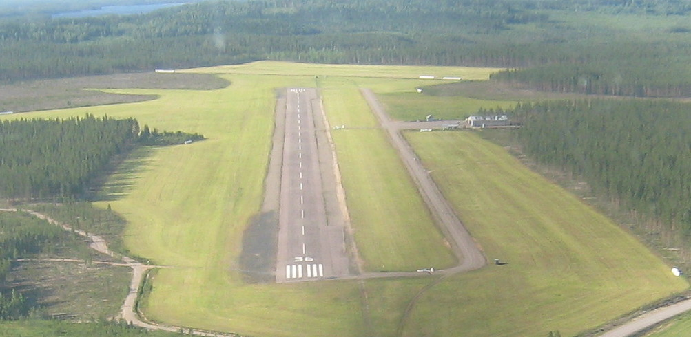 Rautavaara airfield in Finland from air